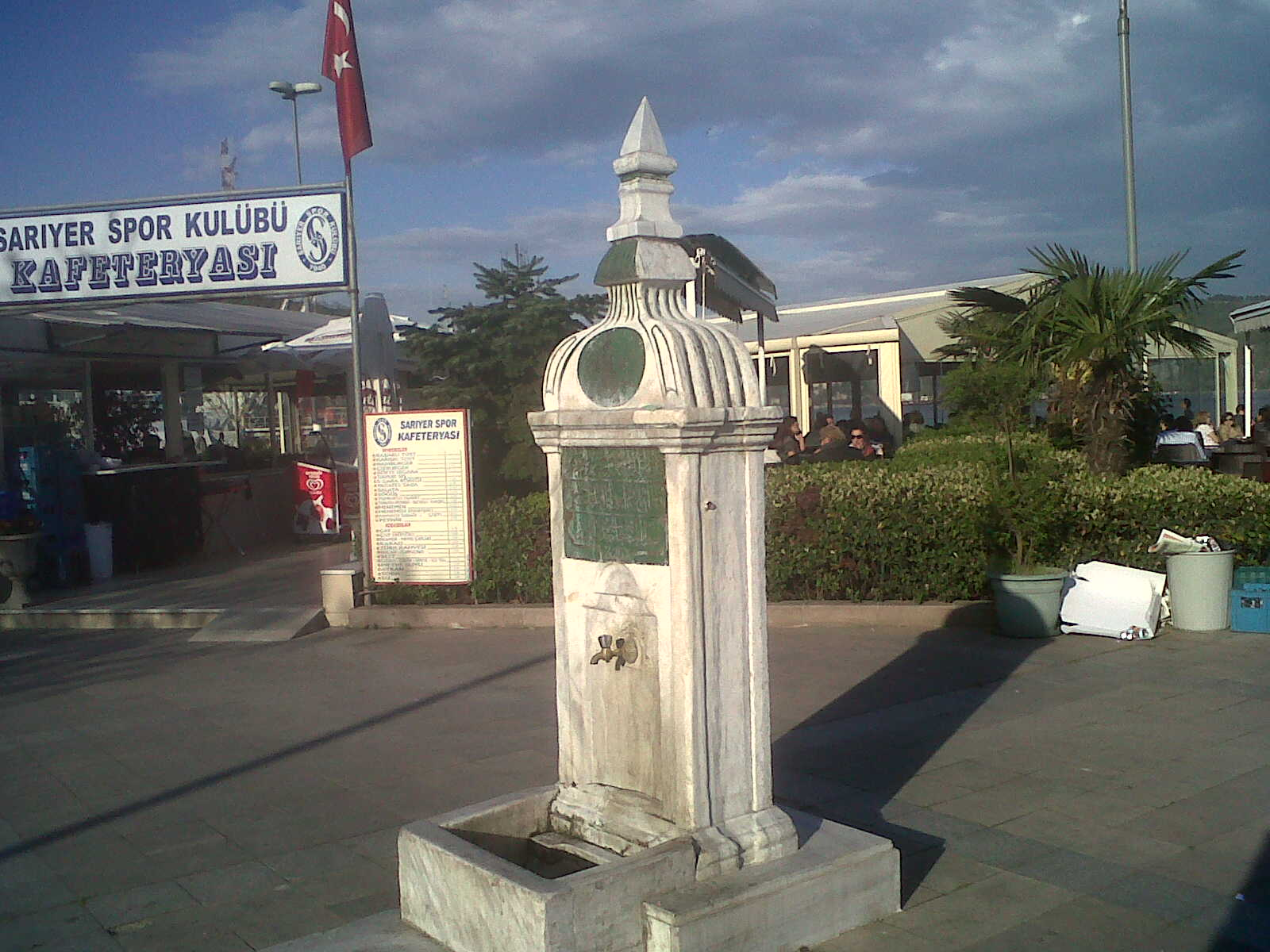 SARIYER AHMET KEMALİ EFENDİ ÇEŞMESİ